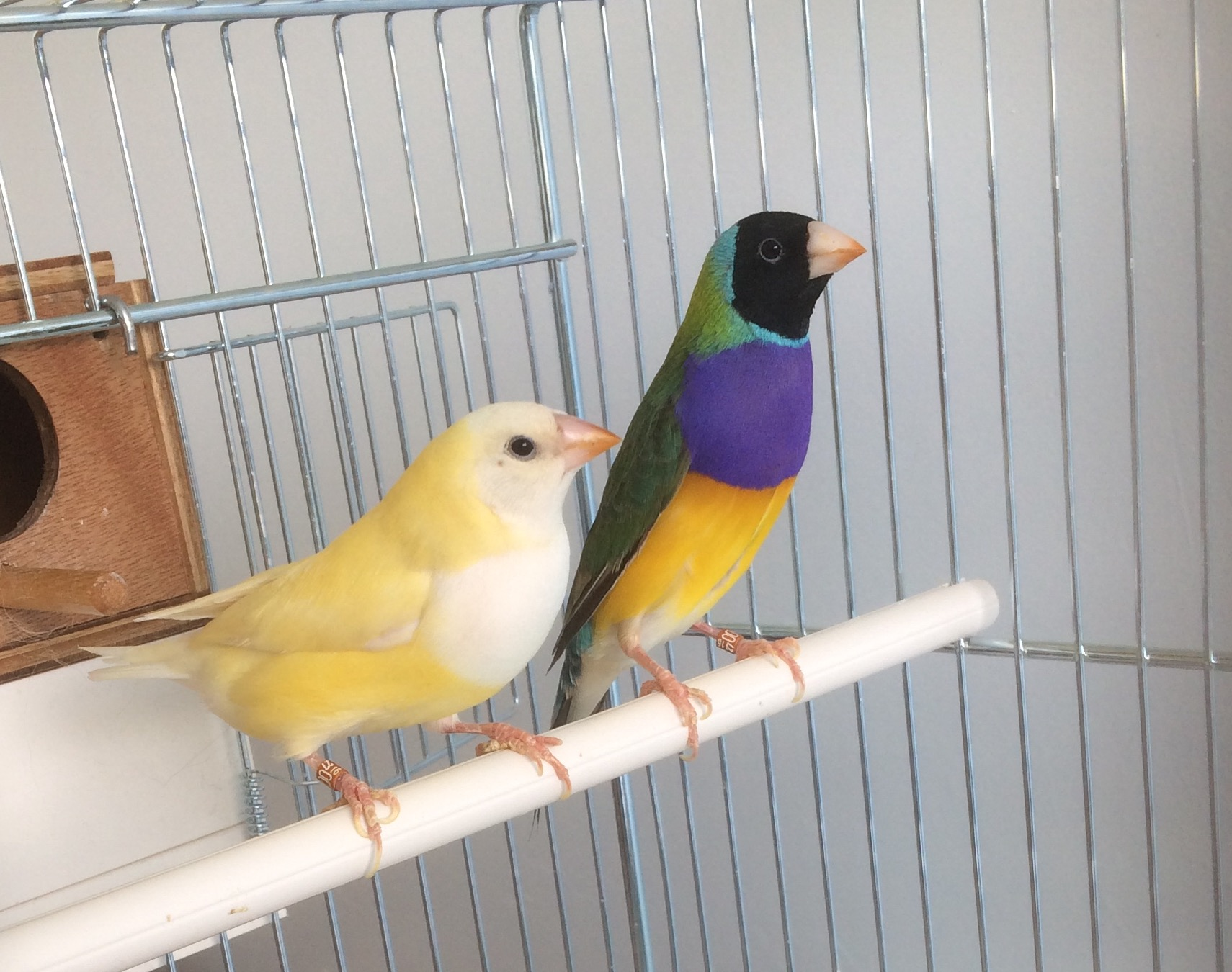 Two Gouldian Finchs. A female with a yellow body and white head and cheast. A male with a green body, black head and purple cheast.